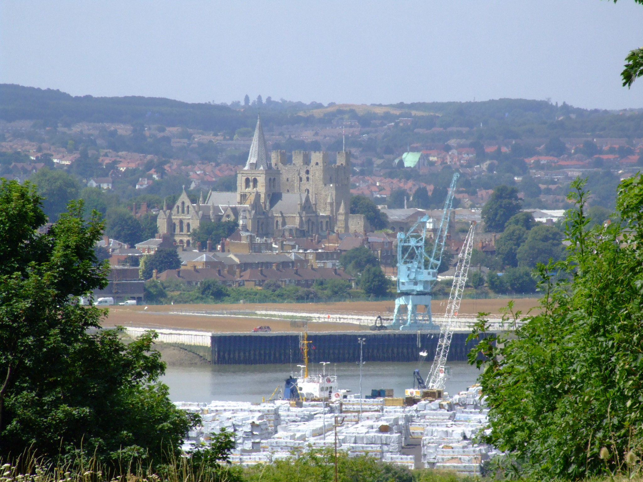 Fort Amherst defends Chatham Dockyard in Kent. Rochester Cathedral, and the Cory's Wharf crane on Riverside Walk from the Upper Barrier Battery - OpenStreetMap(Info)